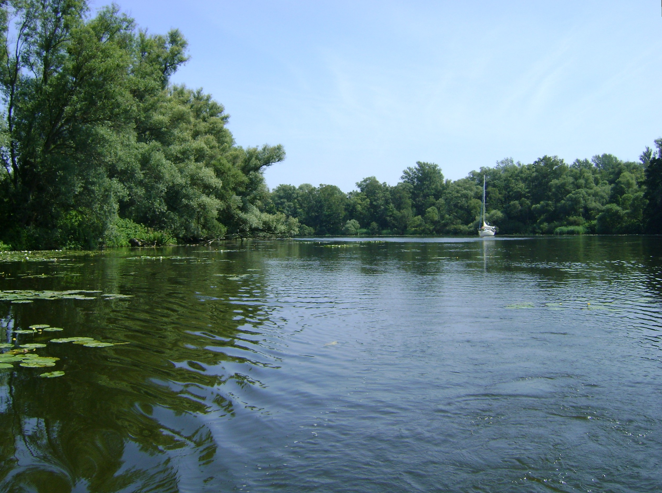 Dunczyca Canal (arm of Odra river) in Szczecin